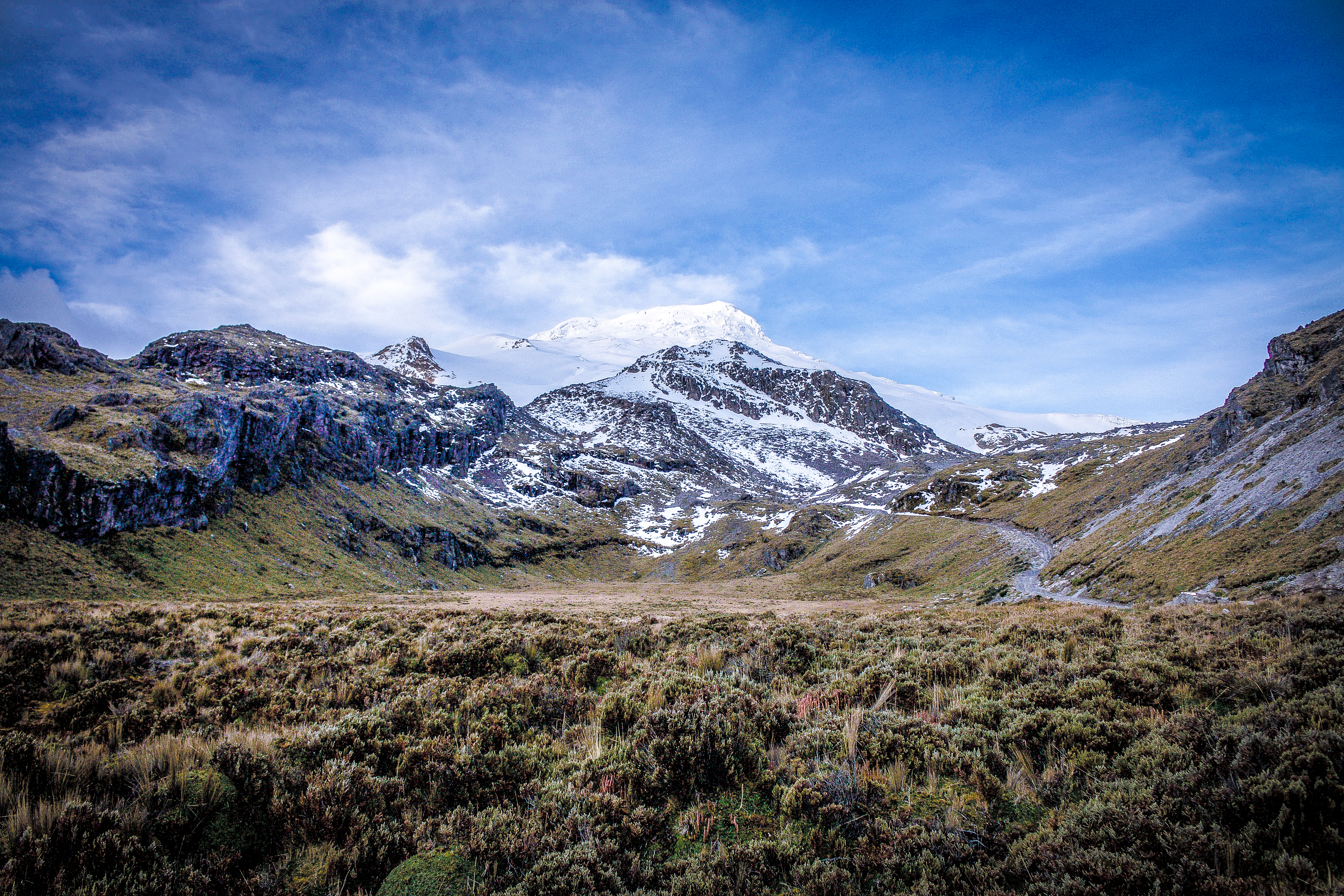 Cayambe Volcano 2km before the refuge.